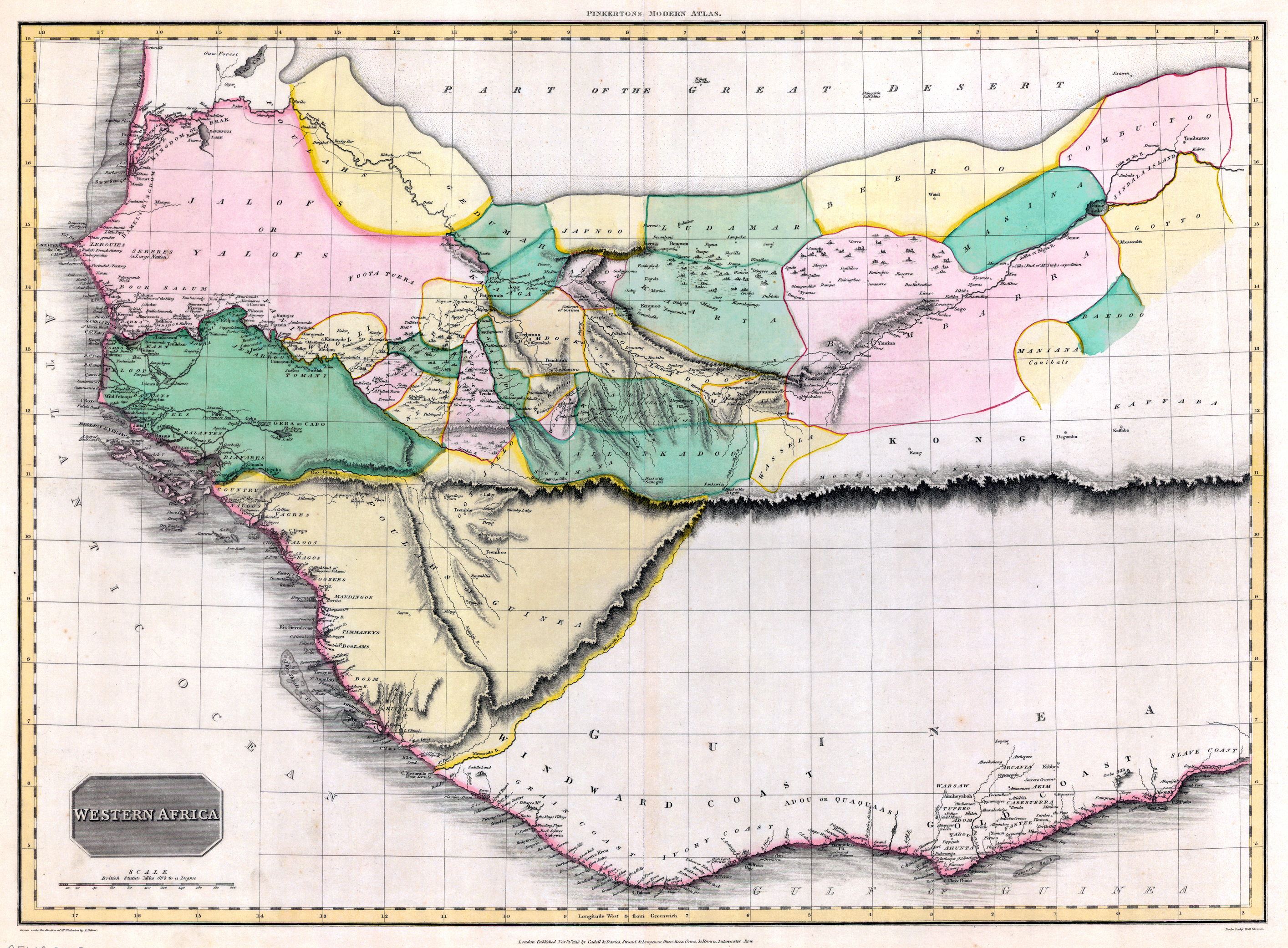 Old map from Africa, made by John Pinkerton in 1813. The map shows the non exisiting "Mountains of Kong".